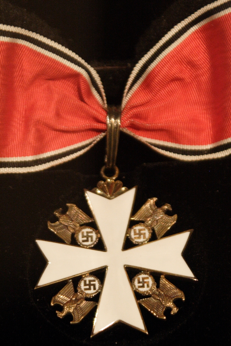 Charles Lindbergh's Service Cross of the German Eagle (Verdienstorden vom Deutschen Adler), Missouri History Museum, St. Louis, Missouri